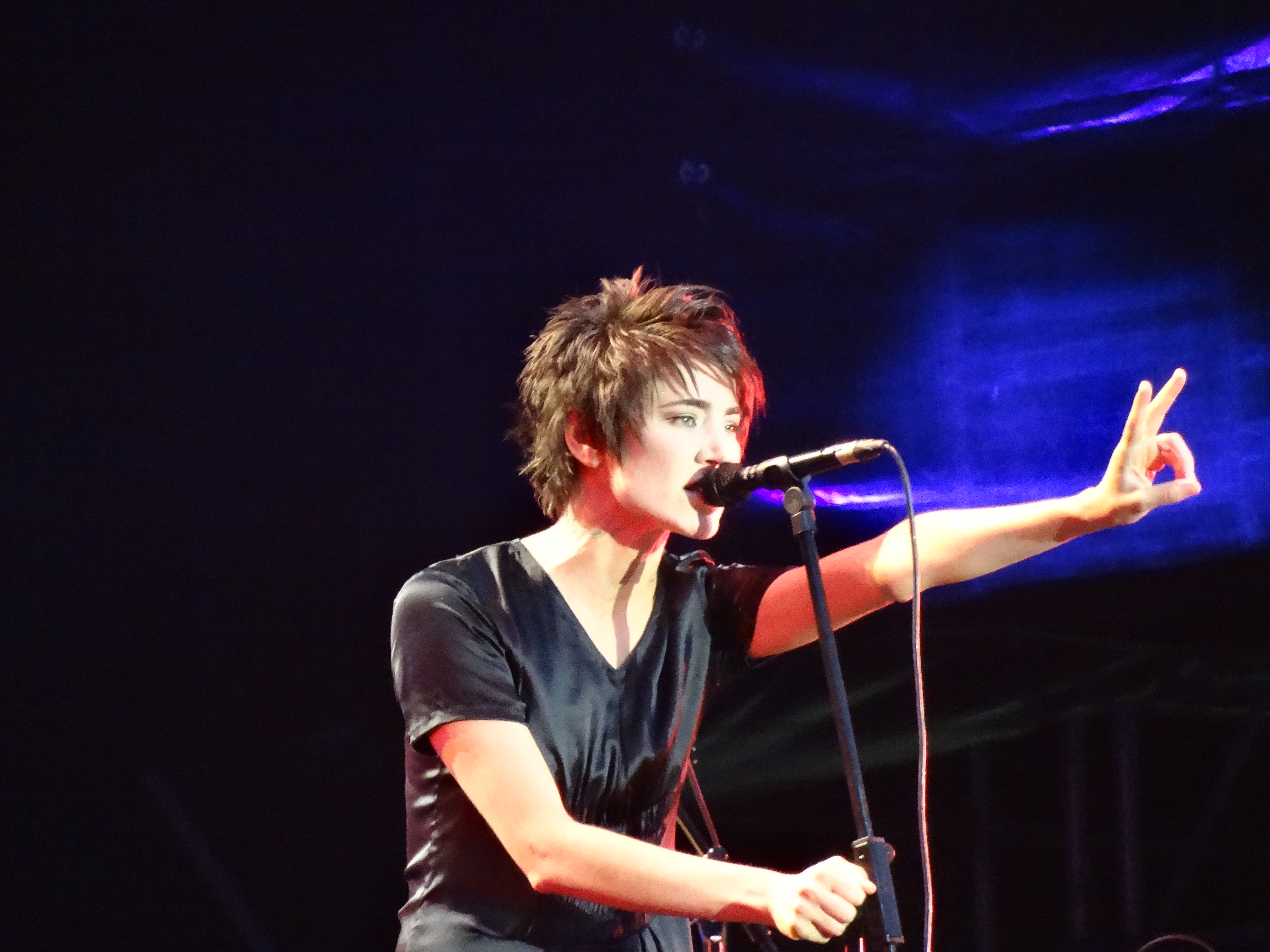 Zemfira @ Park Live Festival, VVC (All-Russia Exhibition Centre), Moscow, 30.06.2013